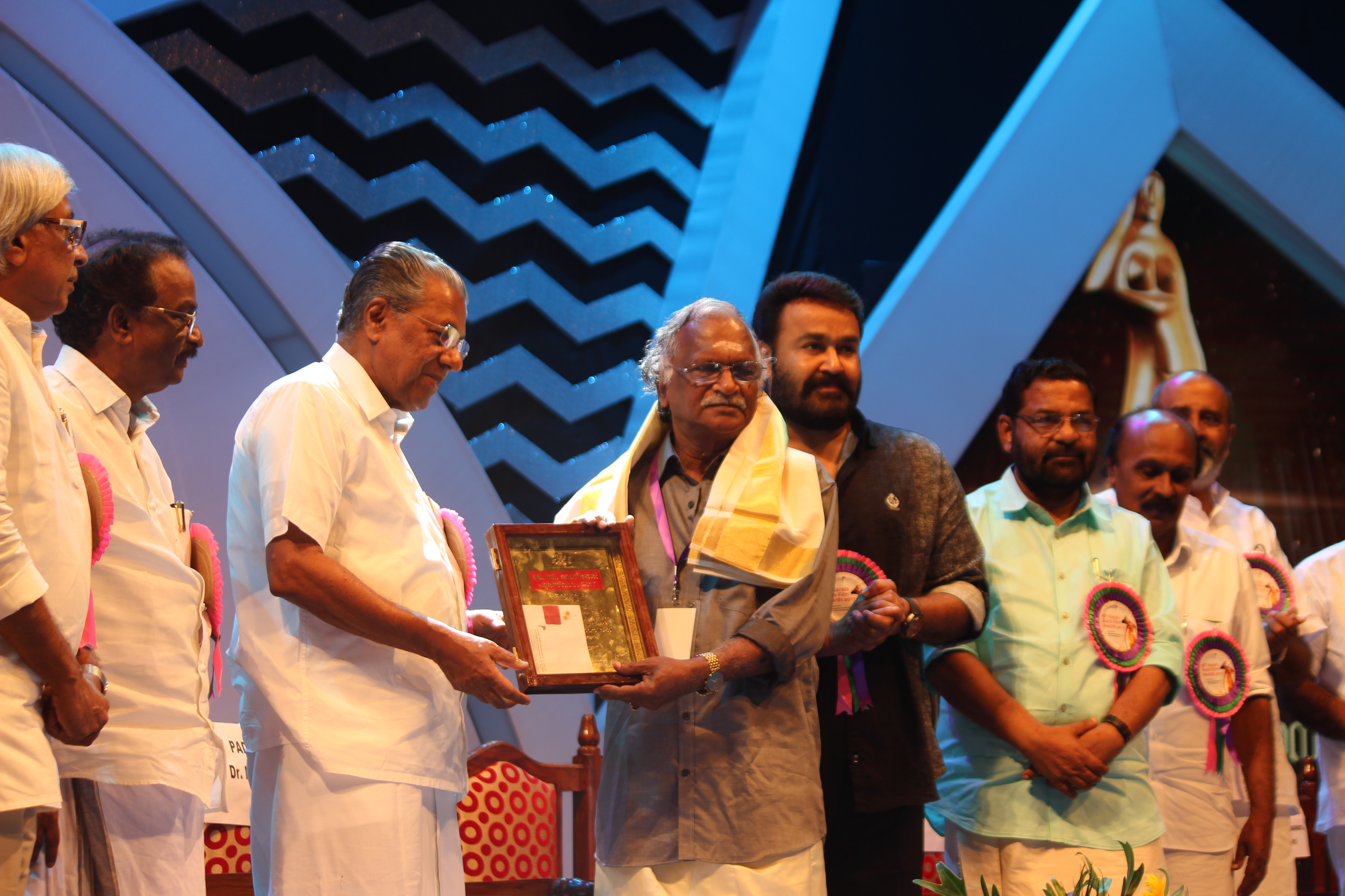 Sreekumaran Thampi receiving the J. C. Daniel Award 2017 from Pinarayi Vijayan, the Chief Minister of Kerala